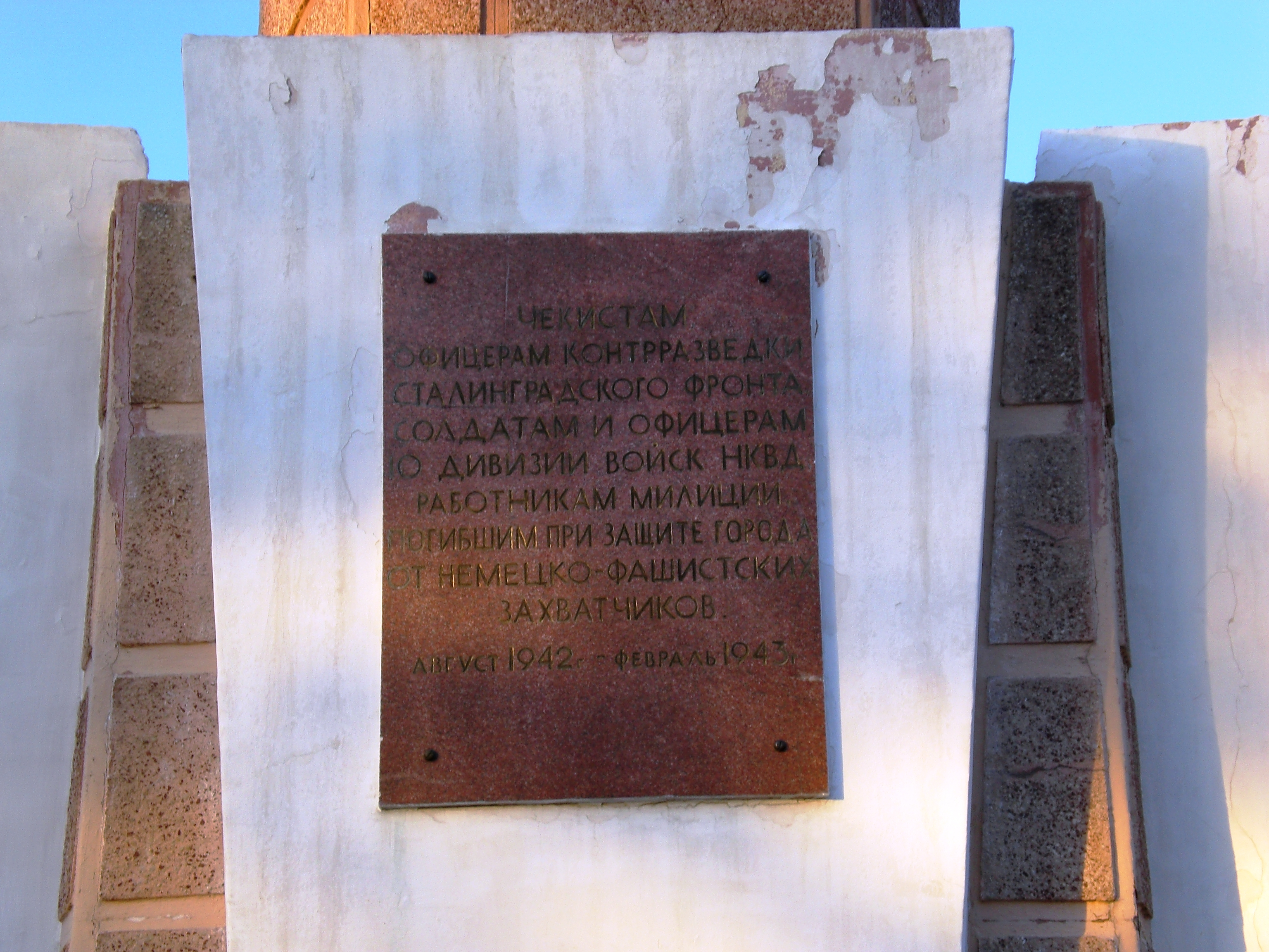 Memorial board on the Monument to 10th NKVD division in Volgograd, Russia